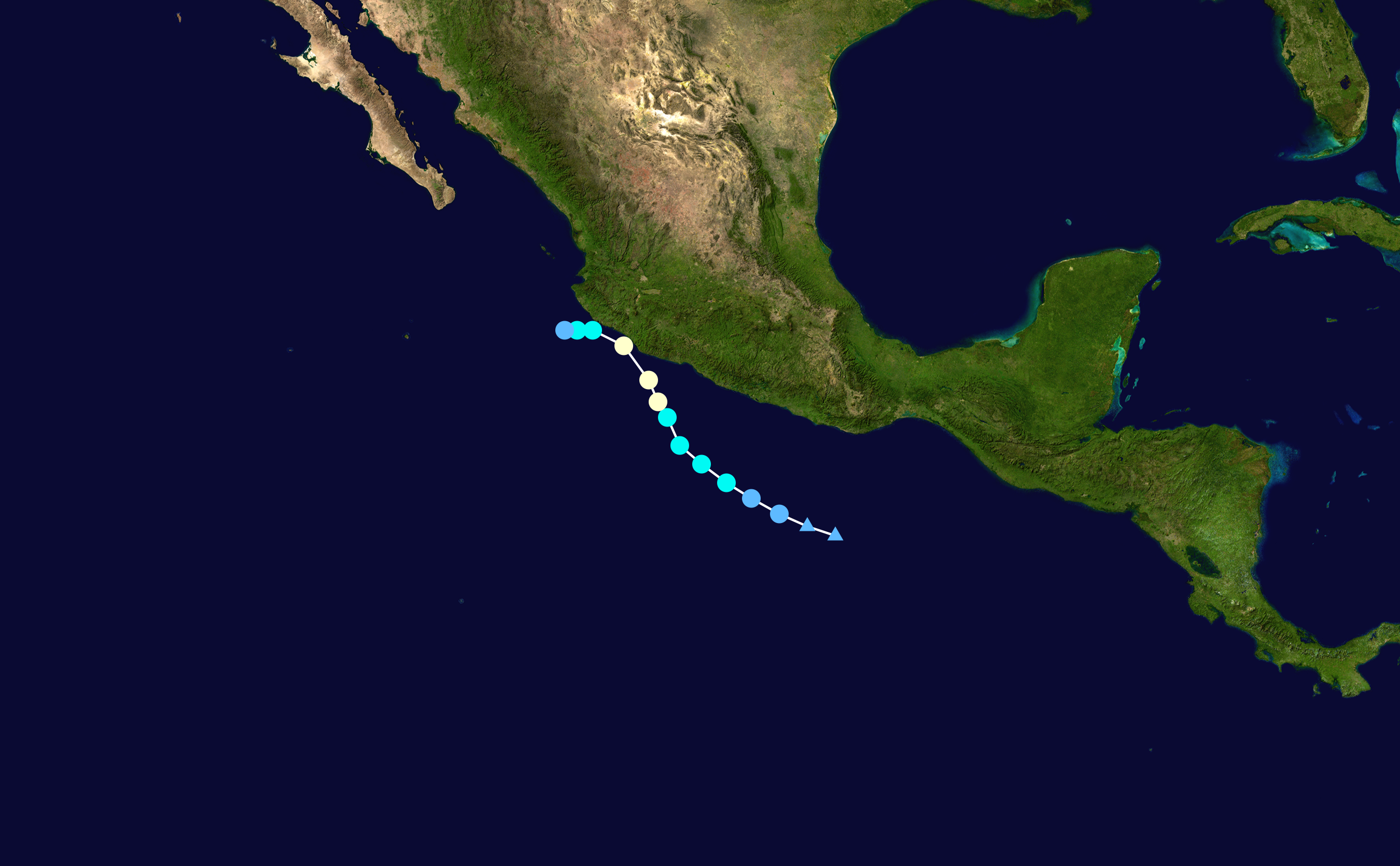 Track map of Hurricane Beatriz of the 2011 Pacific hurricane season. The points show the location of the storm at 6-hour intervals. The colour represents the storm's maximum sustained wind speeds as classified in the Saffir–Simpson scale (see below), and the shape of the data points represent the nature of the storm, according to the legend below. Saffir–Simpson scale Tropical depression≤38 mph≤62 km/h Category 3111–129 mph178–208 km/h Tropical storm39–73 mph63–118 km/h Category 4130–156 mph209–251 km/h Category 174–95 mph119–153 km/h Category 5≥157 mph≥252 km/h Category 296–110 mph154–177 km/h Unknown Storm type Tropical cyclone Subtropical cyclone Extratropical cyclone / Remnant low / Tropical disturbance / Monsoon depression